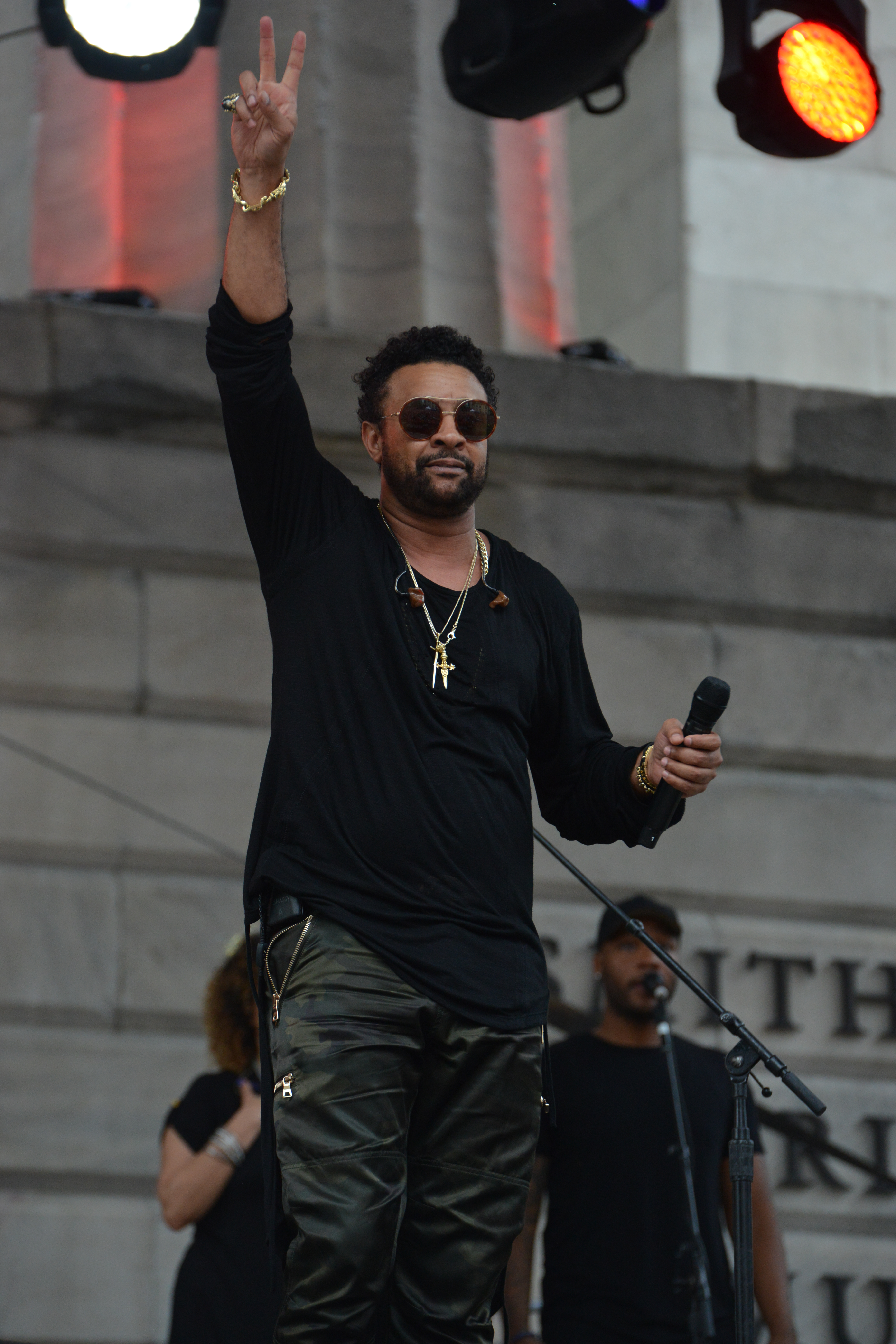 Capitals All Caps playoff Concert 2018